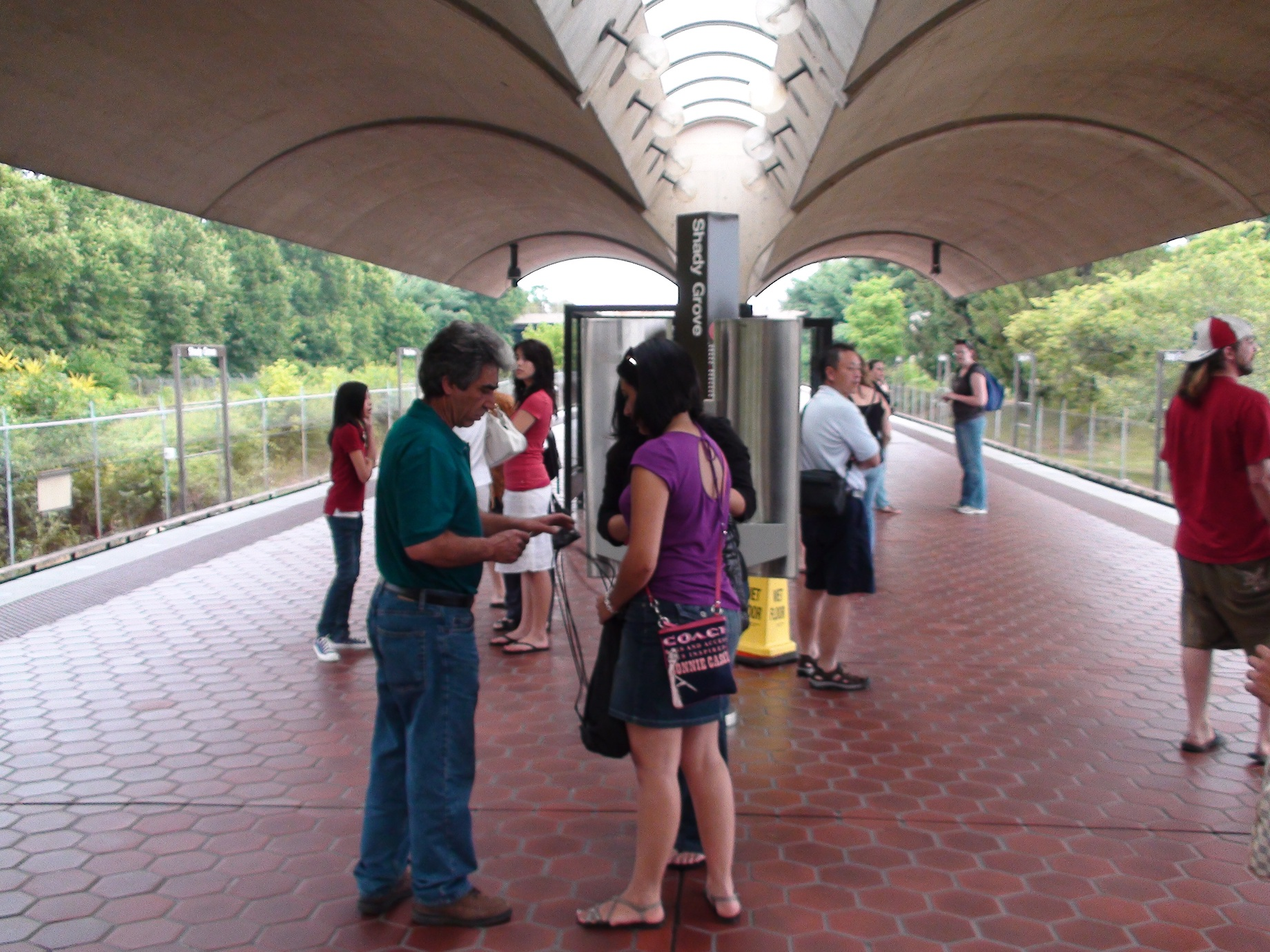 A platform at the Shady Grove WMATA station in Derwood, Maryland, in July 2009. Photograph taken on July 4, 2009, in Derwood, Montgomery County, Maryland, with a Sony HDR-SR11 camcorder, by Illegitimate Barrister. Time and date stamp on EXIF data is accurate per local time zone (ET).